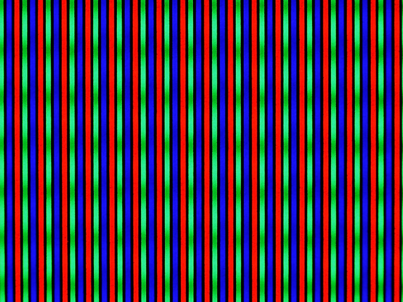 The phosphors of a 25" television monitor (Sony KV-25FX20D) that contains an aperture grille in close-up. When displayed on a 15" monitor set to its optimum resolution (1024x768 pixels), the final photo has a magnification of about 40x. Photo taken with a Canon Powershot A95 camera and some additional equipment (a Pentax K mount 50 mm f:1.7 lens and a simple convex lens taken off a magnifying glass) to achieve the magnification.